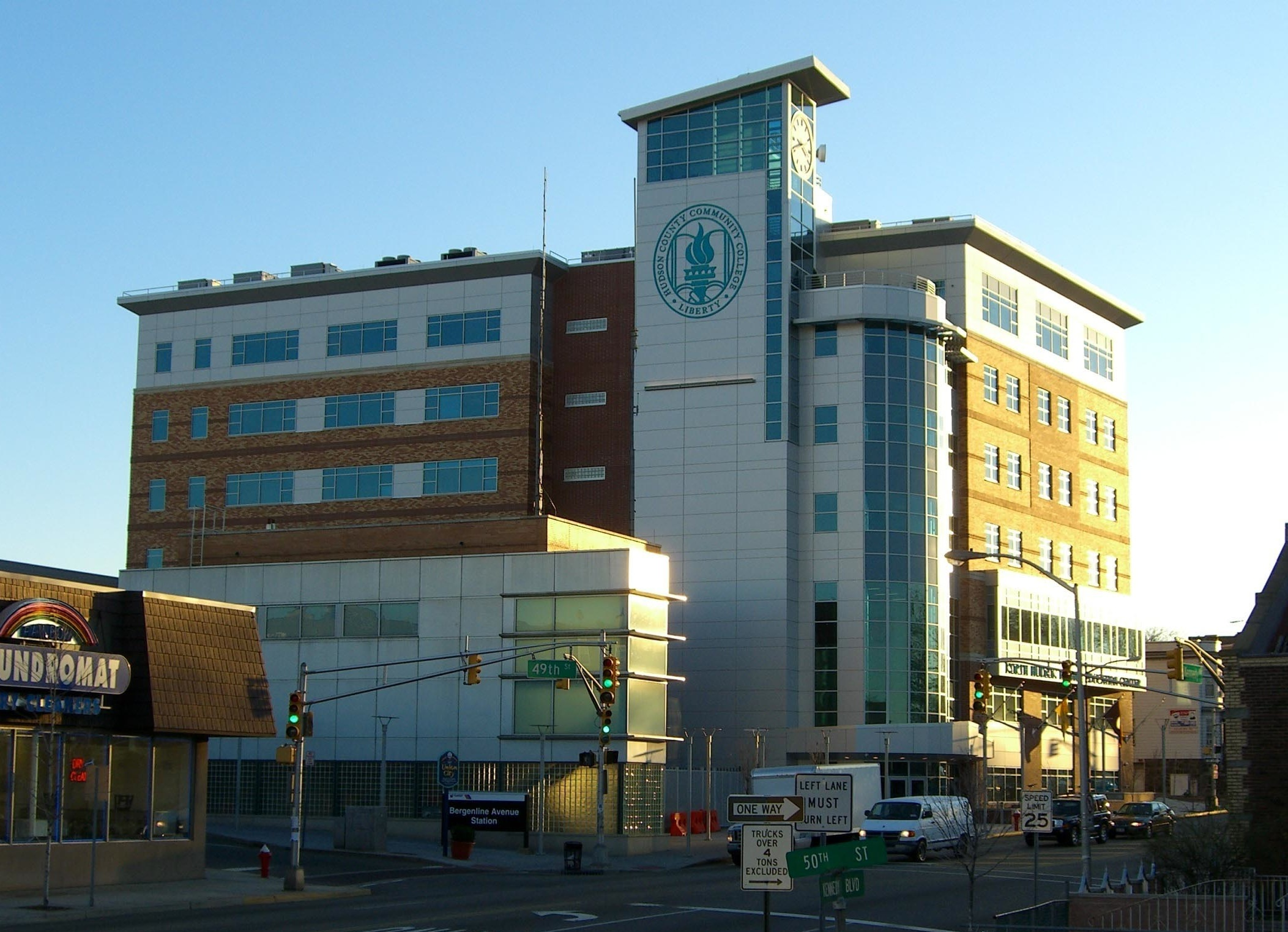 Hudson County Community College North Campus in Union City, New Jersey, photographed December 1, 2011. This photo was created by Luigi Novi. It is not in the public domain, and use of this file outside of the licensing terms is a copyright violation.